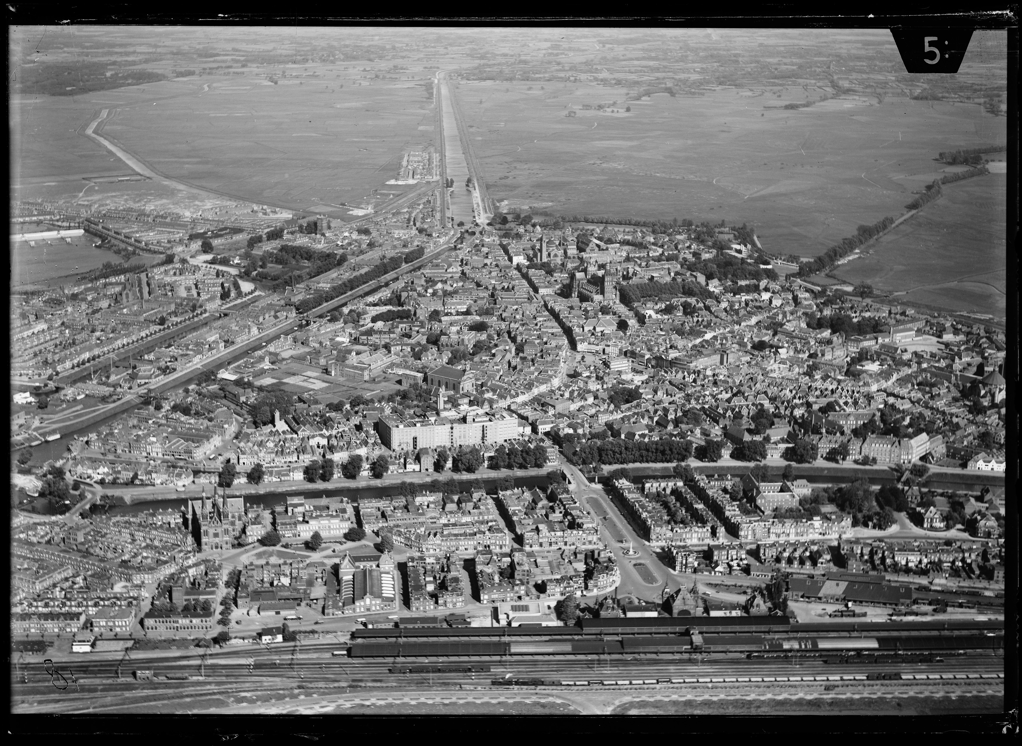 Aerial photograph of 's-Hertogenbosch, The Netherlands